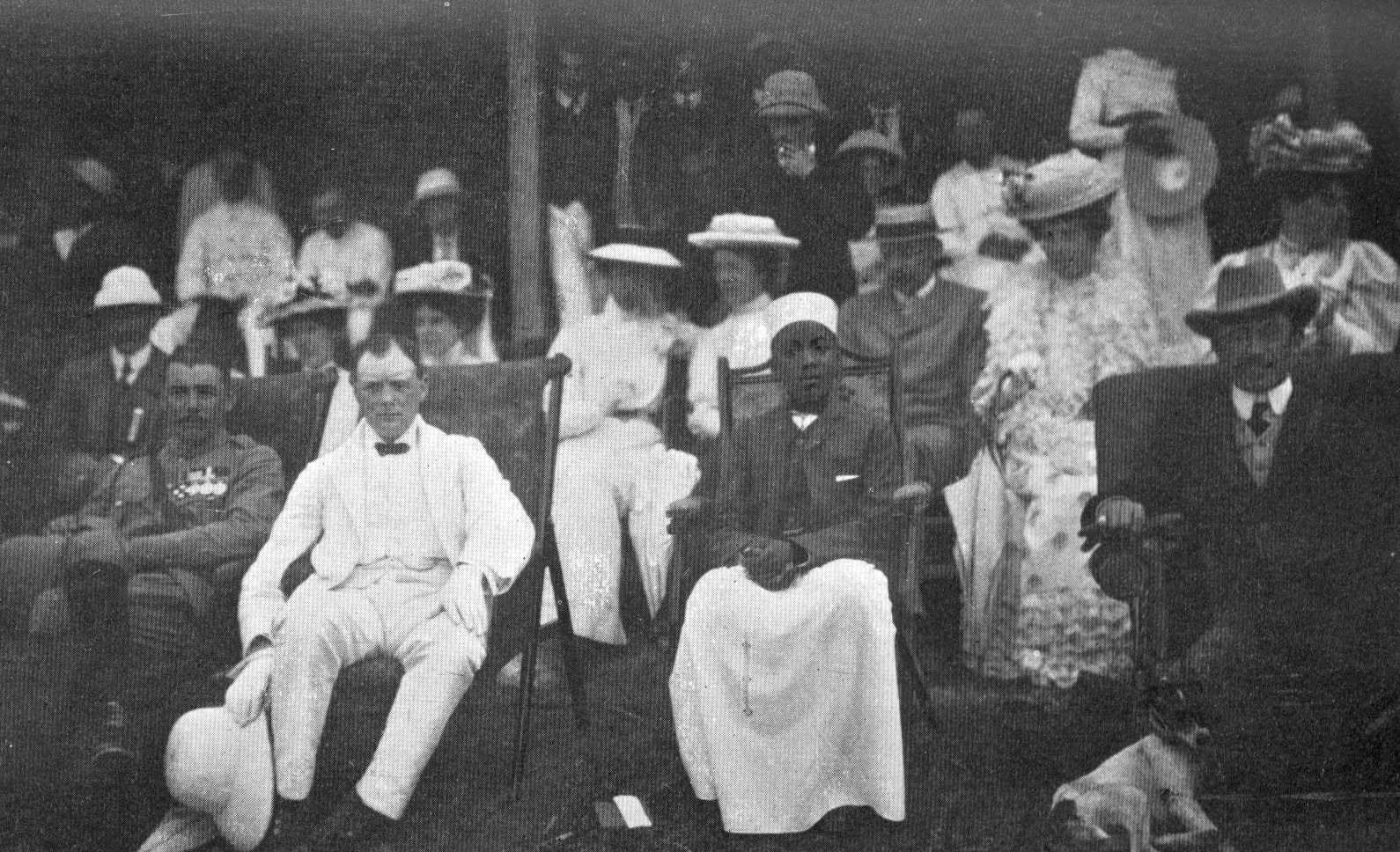 Winston Churchill and King Daudi watching a war-dance at Kampala in 1907.